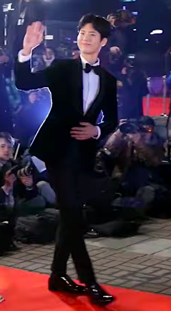 Actor Park Bo-gum at KBS Drama Awards